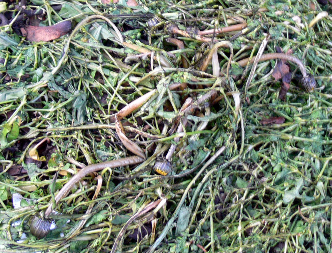 Weed heat (48 h after surgery) at the feet of urban trees (Lille, France), as an alternative to herbicides (another alternative would have been to let the plants grow at the foot of trees, with a simple cut 1 to 2 times year).